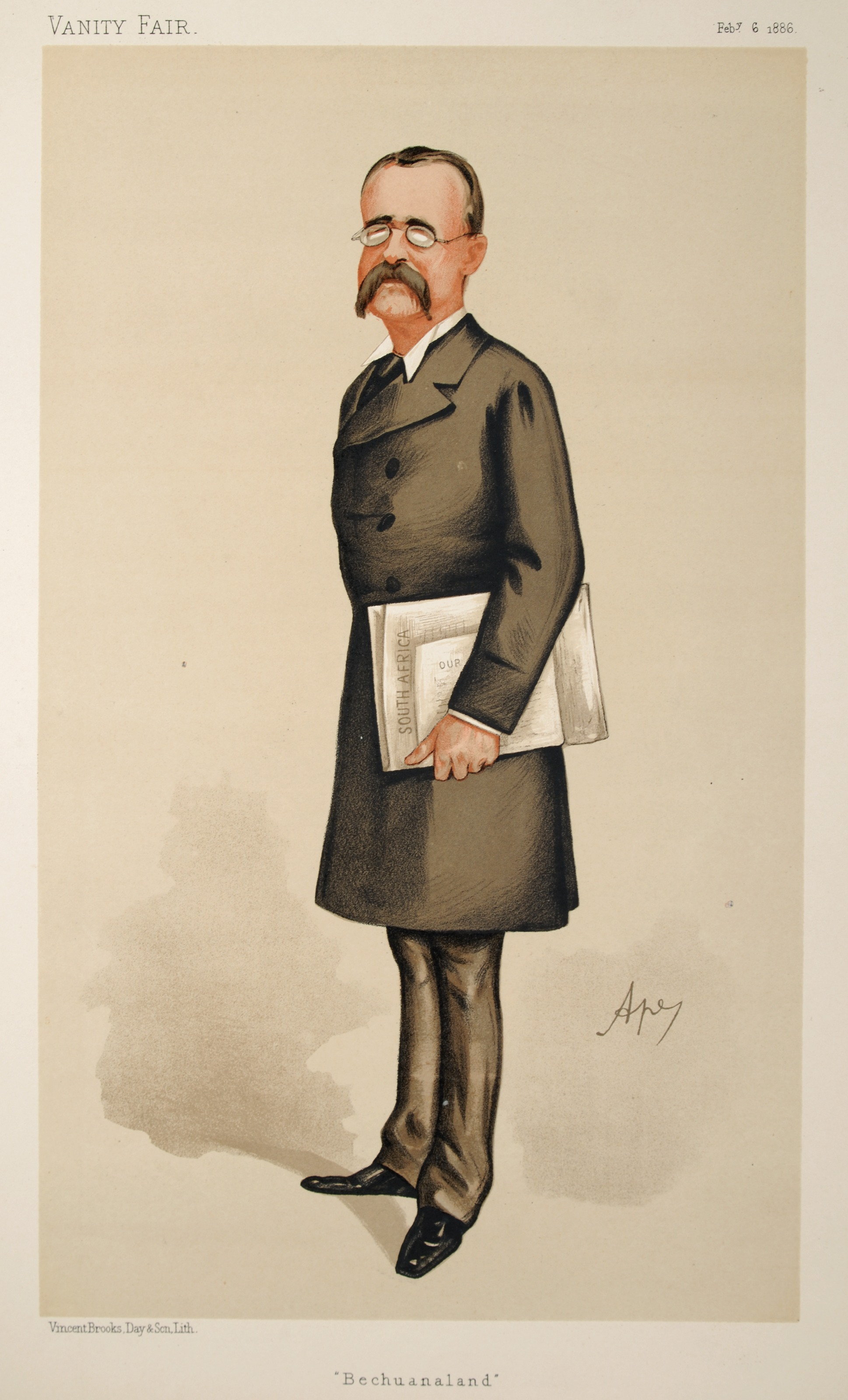 Men or Women of the Day No.351: Caricature of Maj-Gen Sir Charles Warren KCMG. Caption reads: "Bechuanaland."